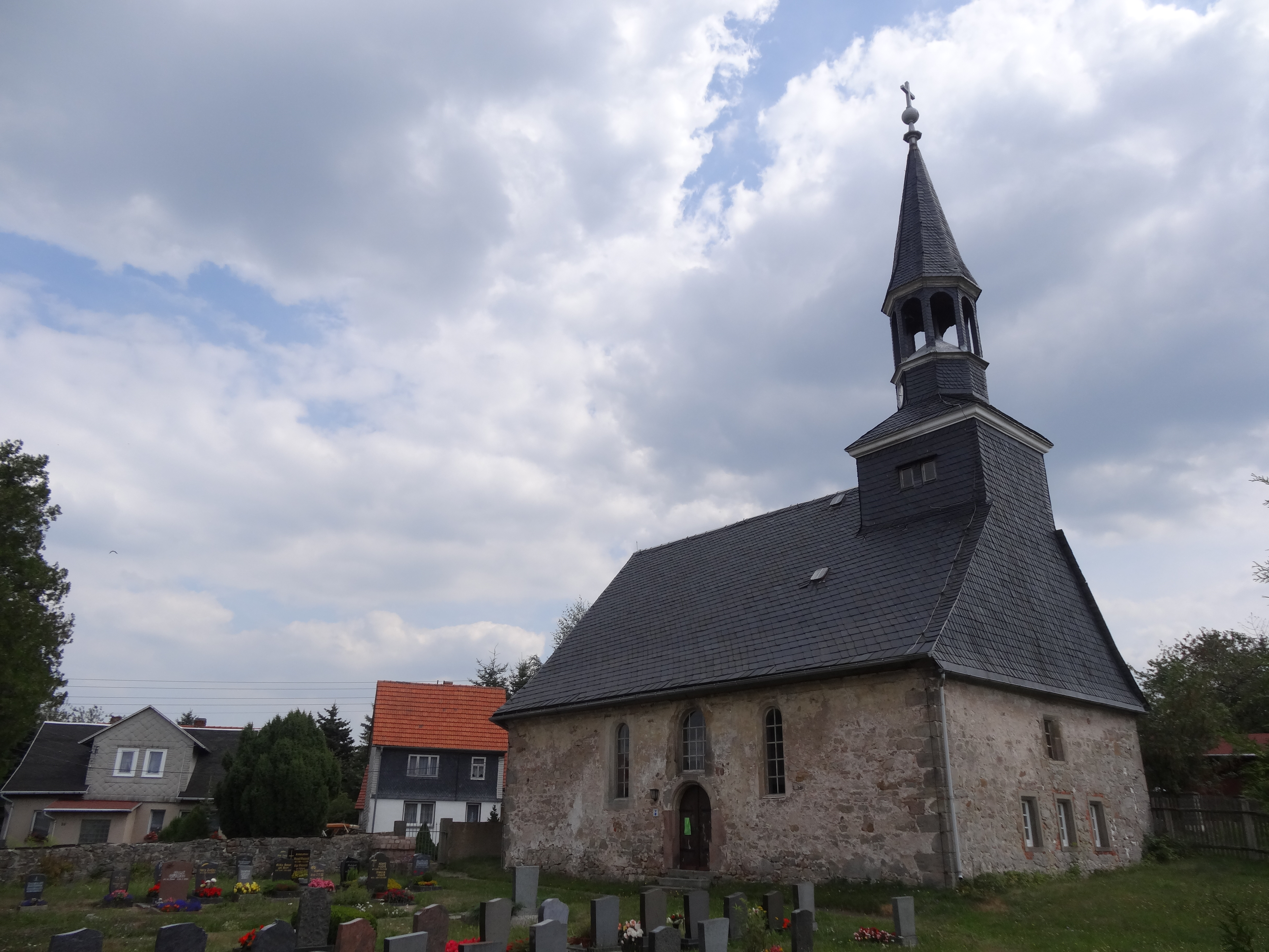 Church in Horba, Thuringia, Germany